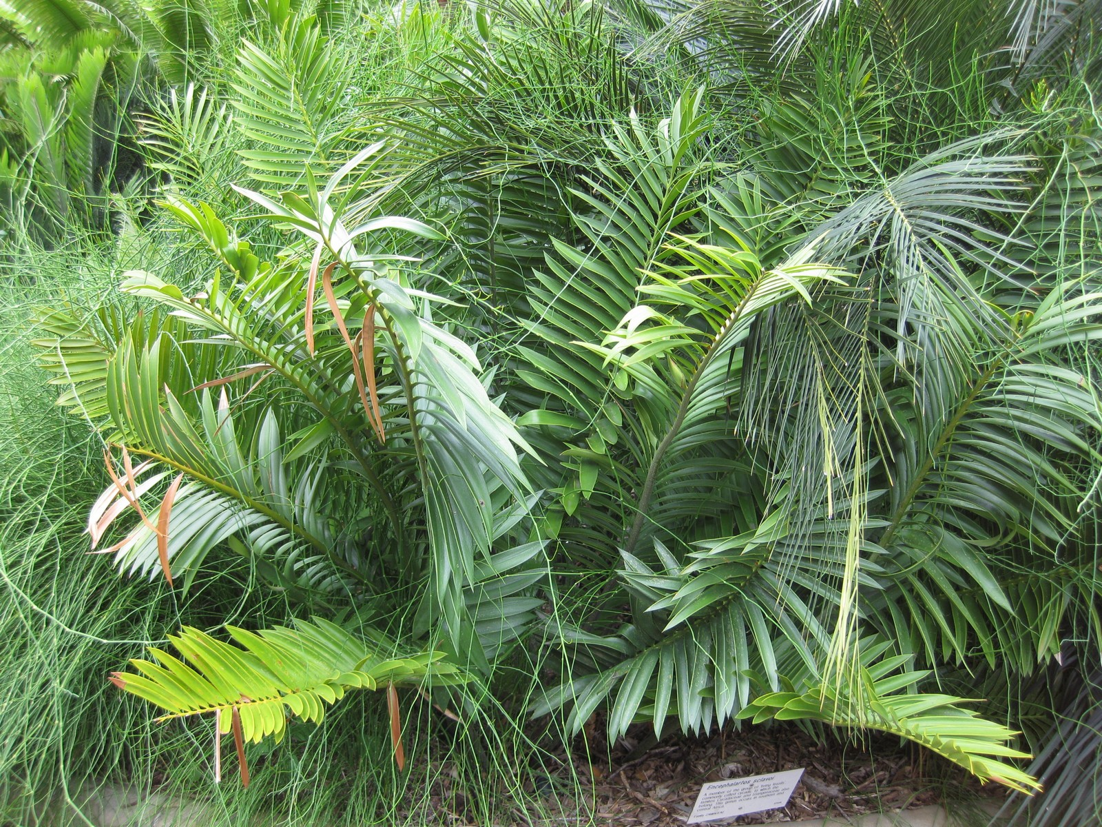 Photographed at the Royal Botanic Gardens Sydney (Australia) in January